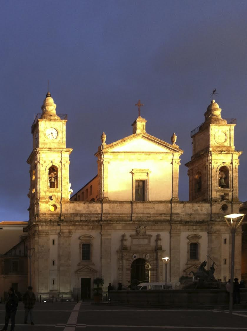 Cathedral at sunset